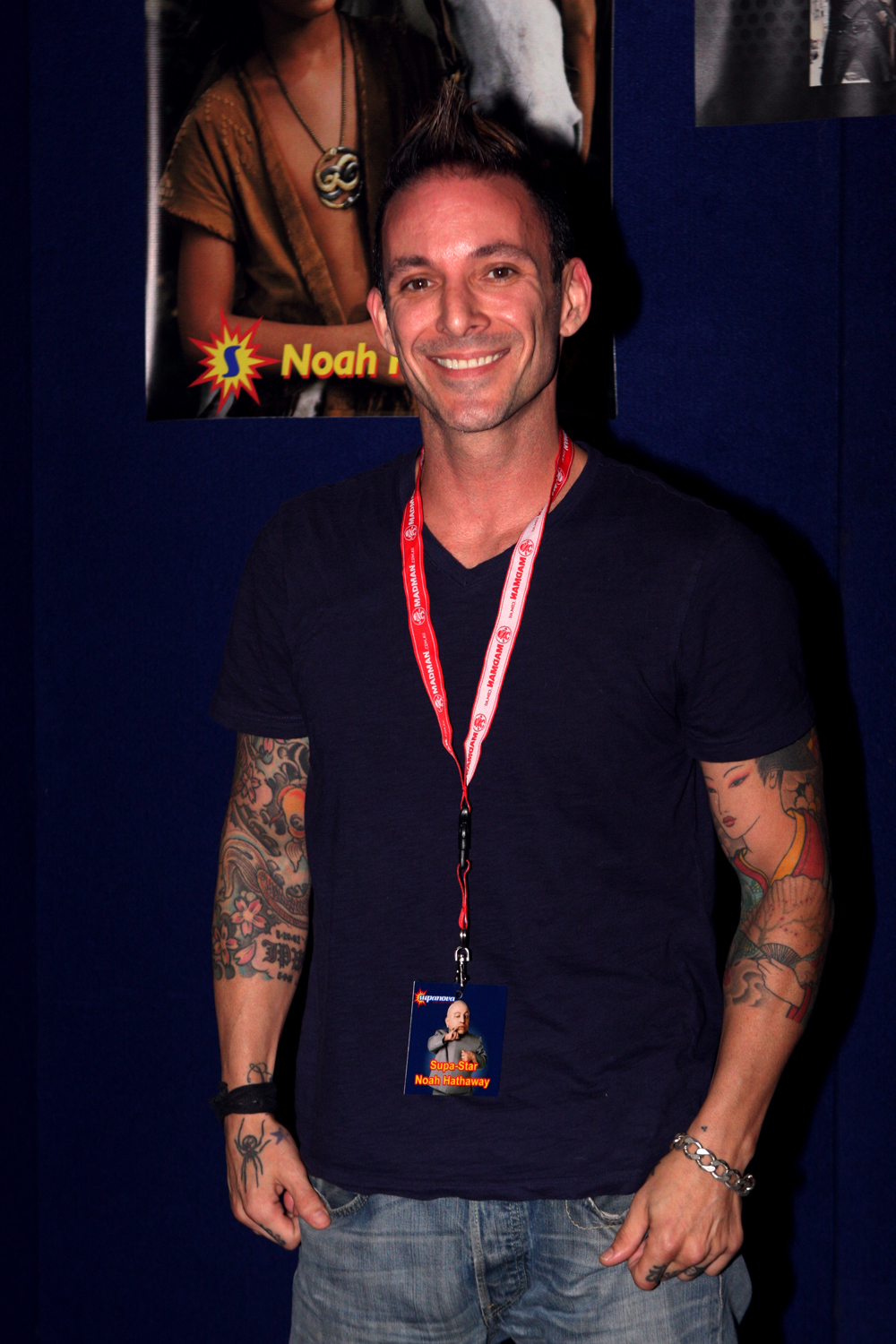 Noah Hathaway at Supernova Pop Culture Expo in Sydney, Australia Music News Australia